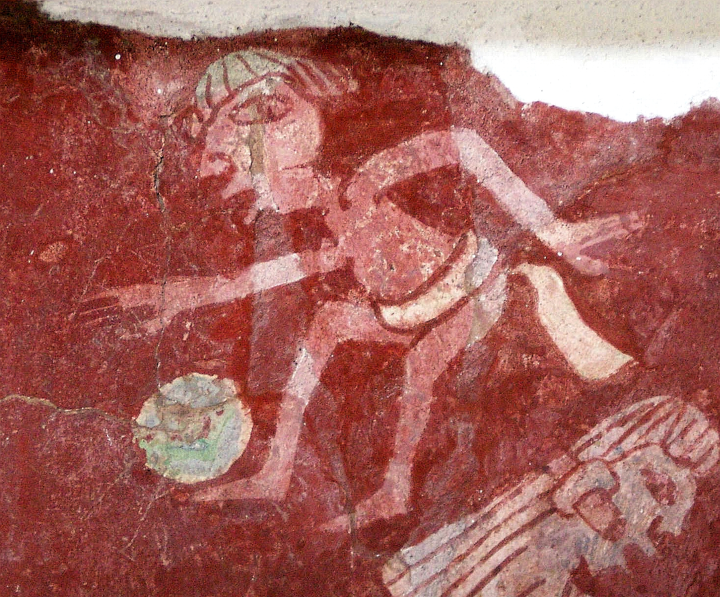 Small detail of a reproduction of a mural at the Tepantitla complex of Teotihuacan. Cropped and enhanced from a photo by Daquella manera